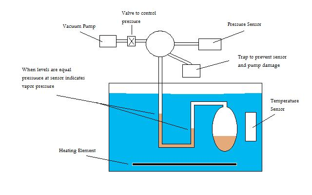 Sketch of isoteniscope being used to determine the vapor pressure of a liquid